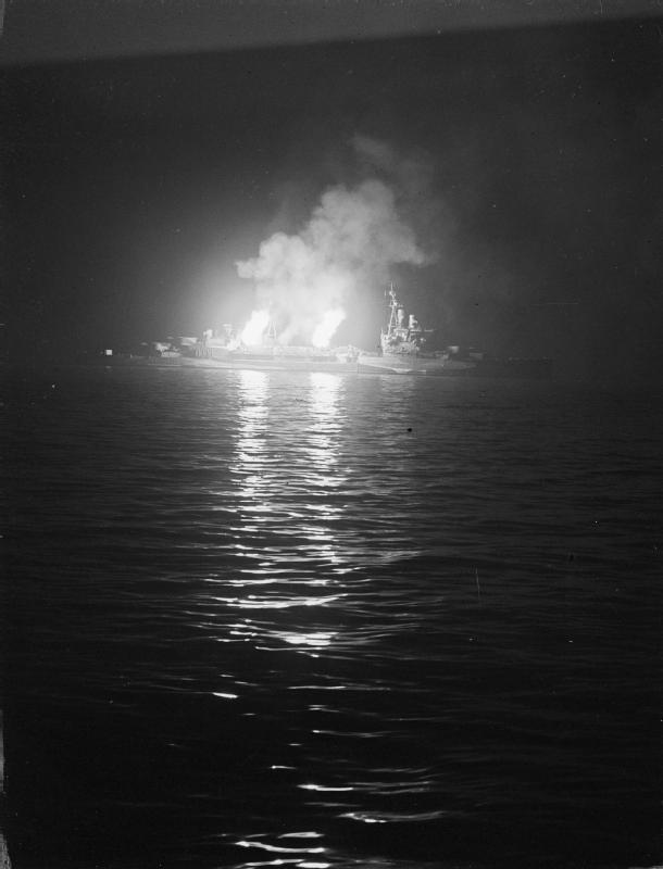 IWM caption : THE ROYAL NAVY SUPPORTING ALLIED FORCES IN NORMANDY, JUNE 1944. Starboard 4 inch guns of HMS BELFAST open fire on German positions around Ver-sur-Mer on the night of 27 June 1945.